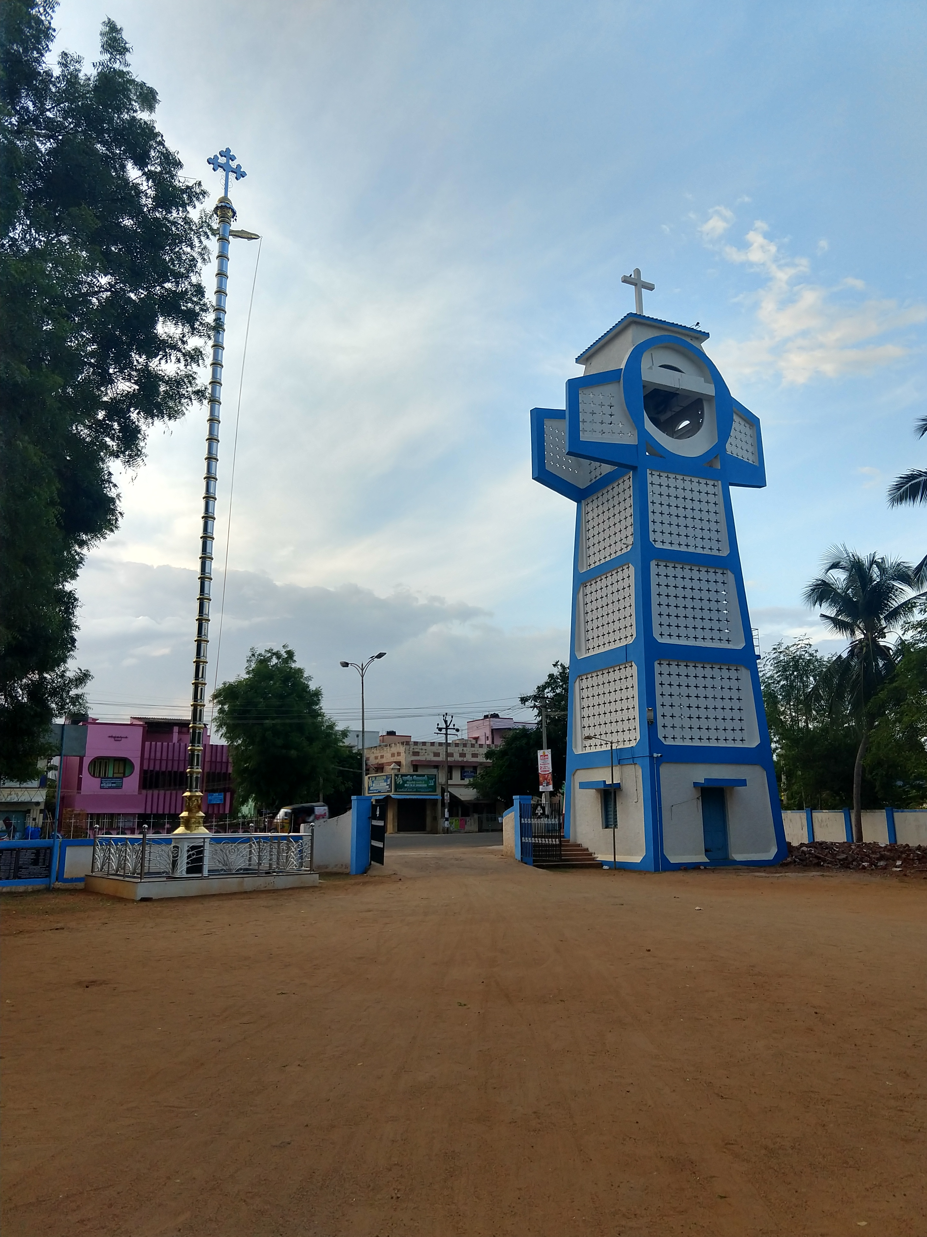 Bell tower and Flag post of Church